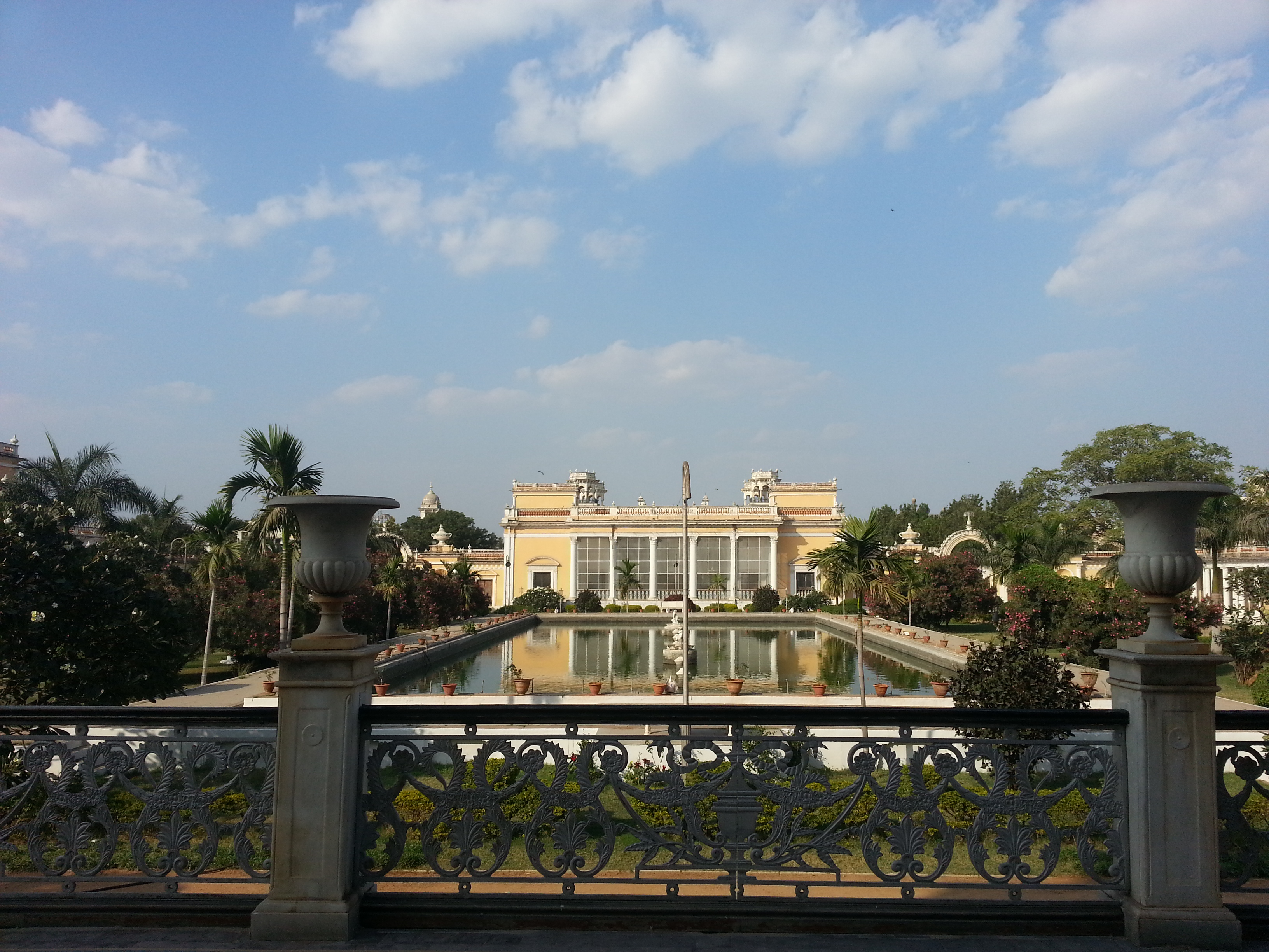 View of Chowmahalla from Aftab Mahal